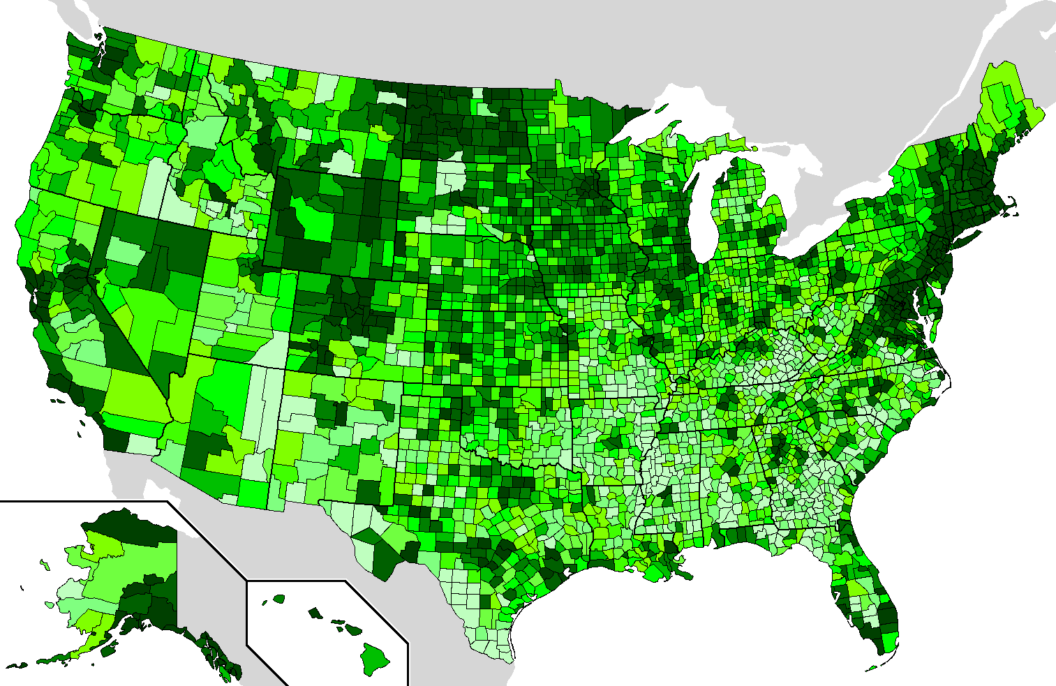 A map of all counties in the United States by per capita income. Areas with higher levels of income are shaded darker.